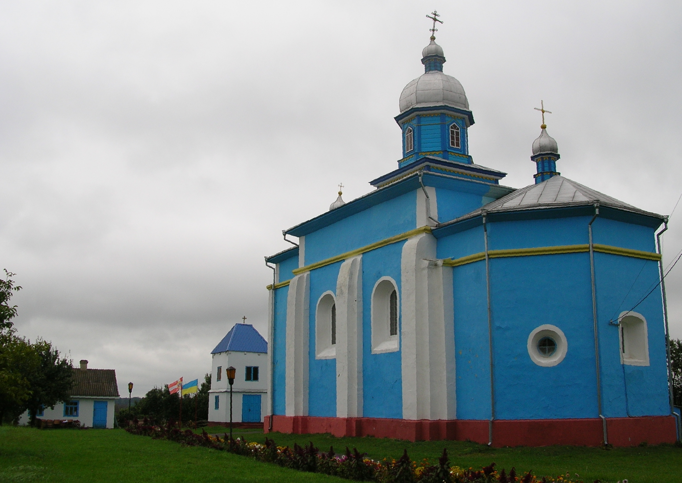 Eastern Orthodox church in Trostianets (Wolhynia), Ukrainian Orthodox Church - Kiev Patriarchate